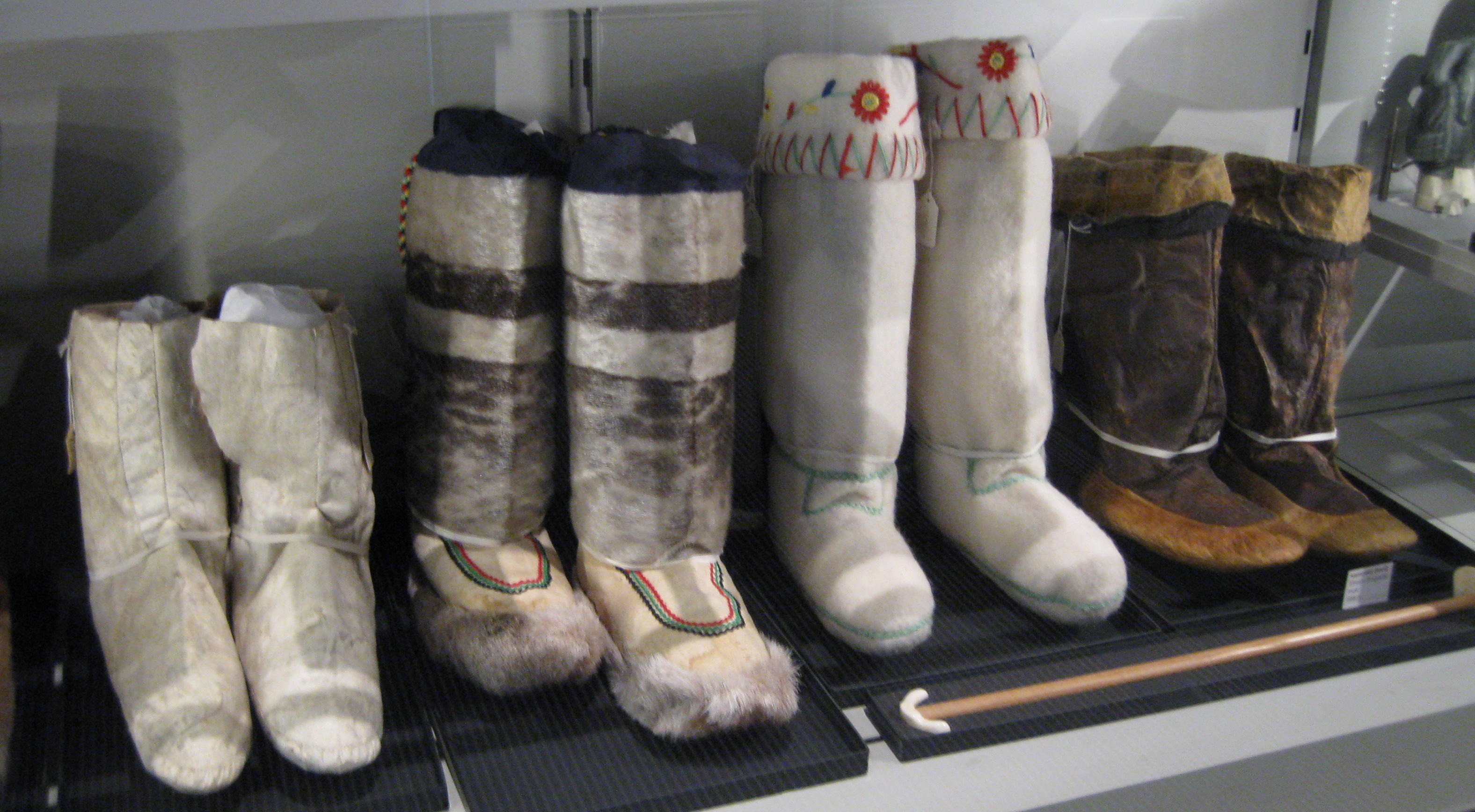 A pair of traditional Inuit or Eskimo shoes. They now belong to the UBC Museum of Anthropology in Vancouver, Canada where they are on permanent display.